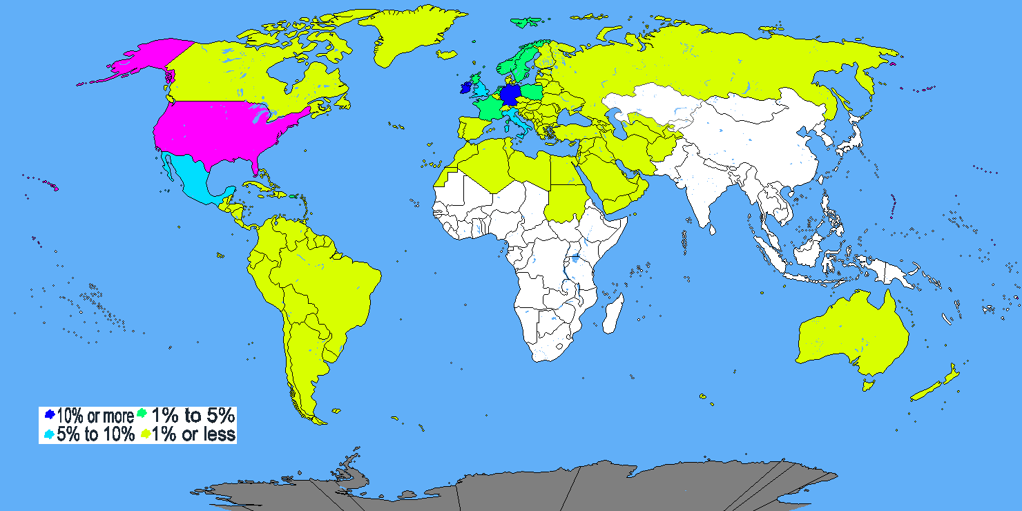 I created this map using the US Census Bureau definition of White.